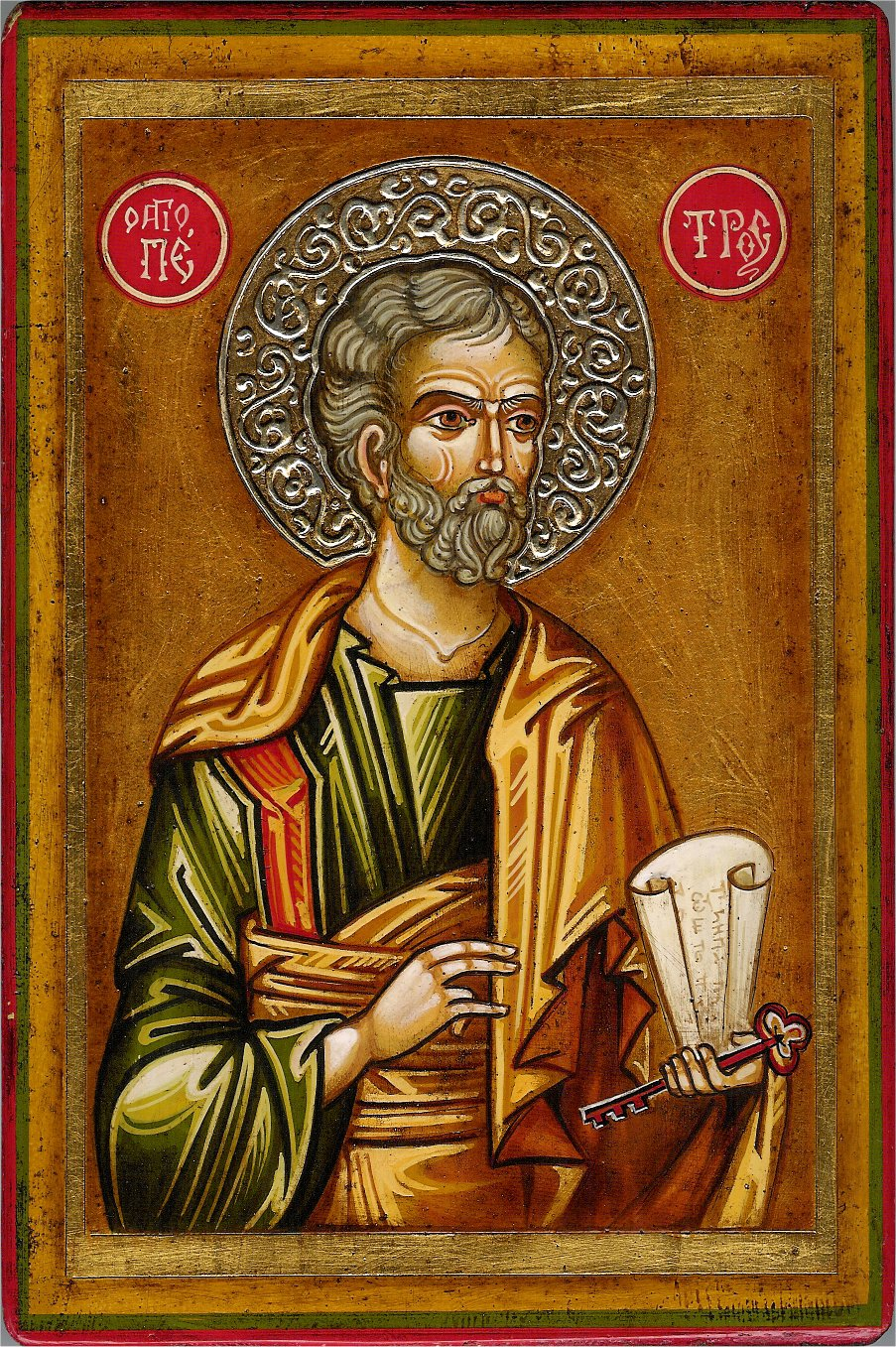 Modern Hand painted Romanian icon of Peter